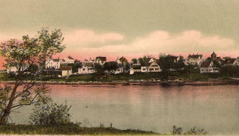 View of the east side, Vinalhaven, Maine